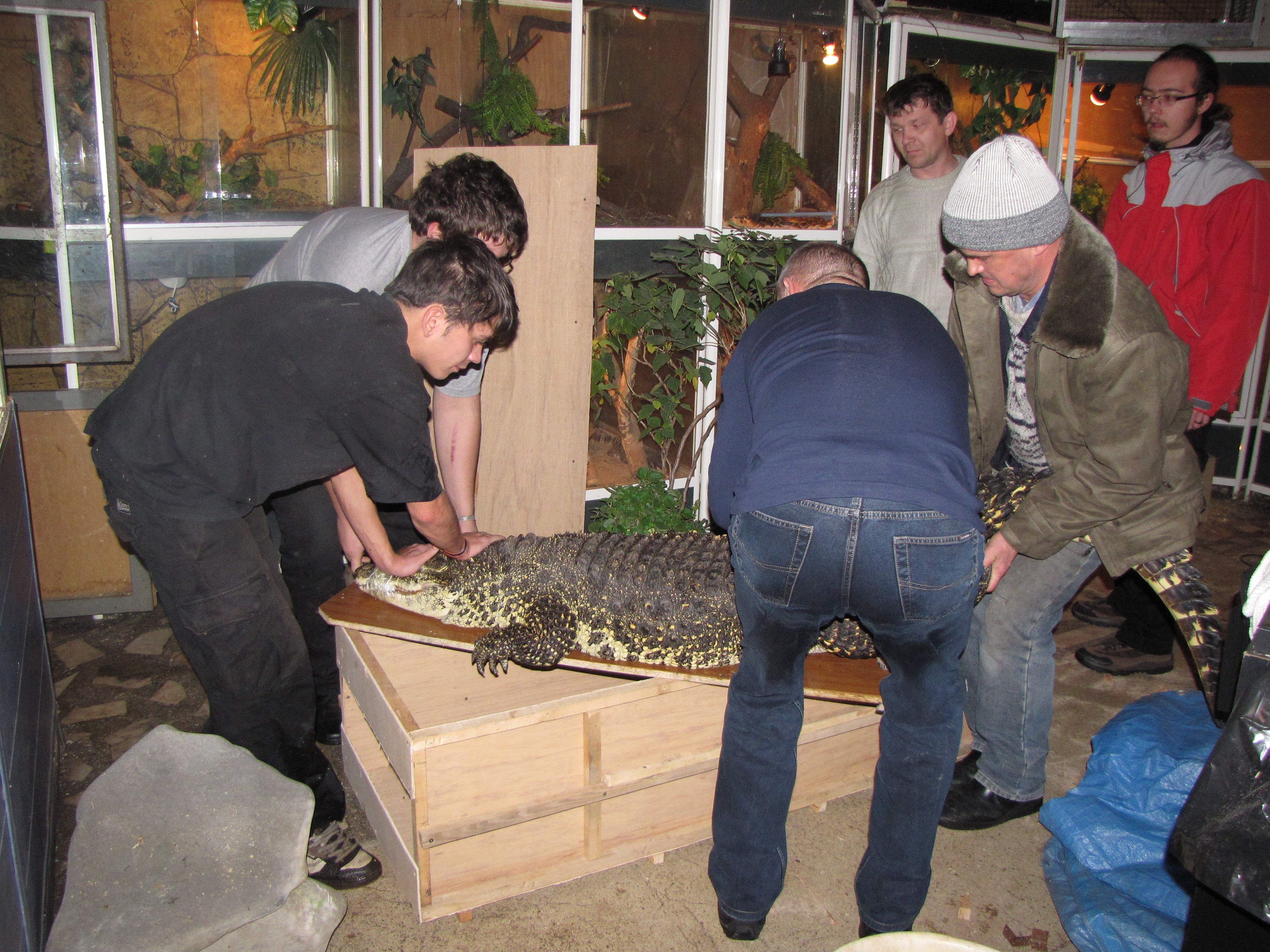 Krokodil